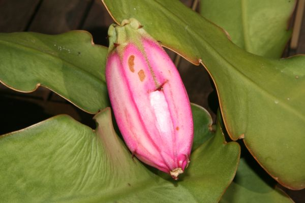 plant with fruit, from Mato Grosso, Brasil